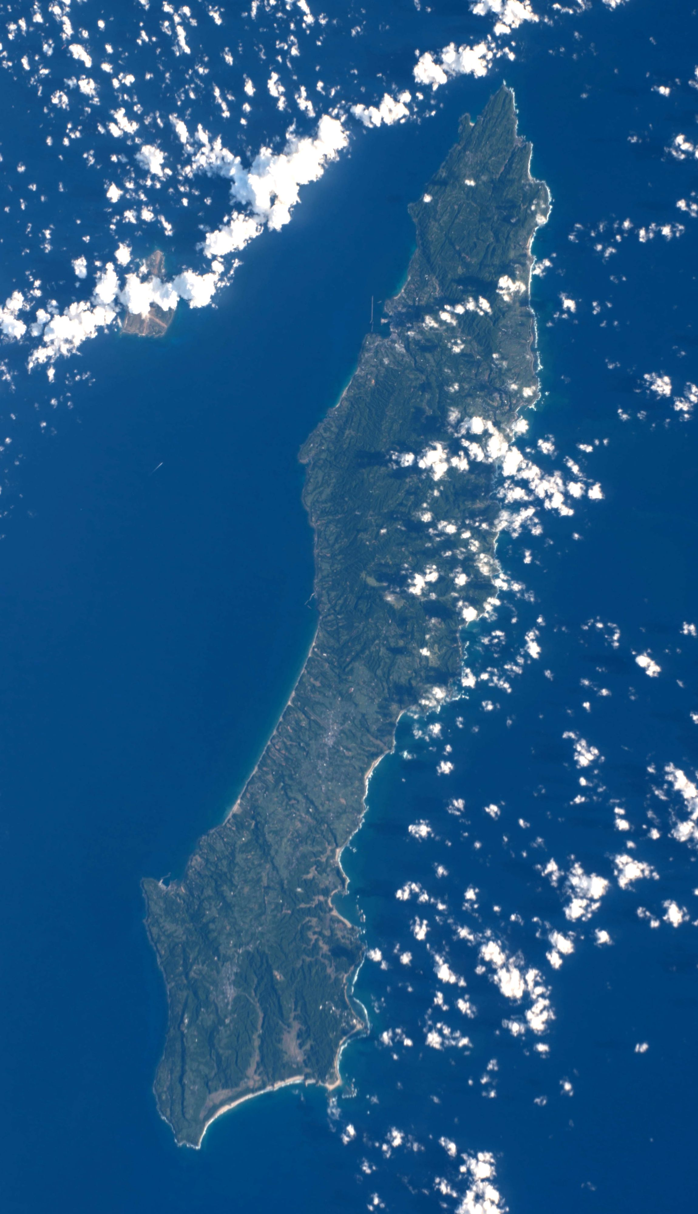 Tanega-shima Island, Kagoshima prefecture, Japan.